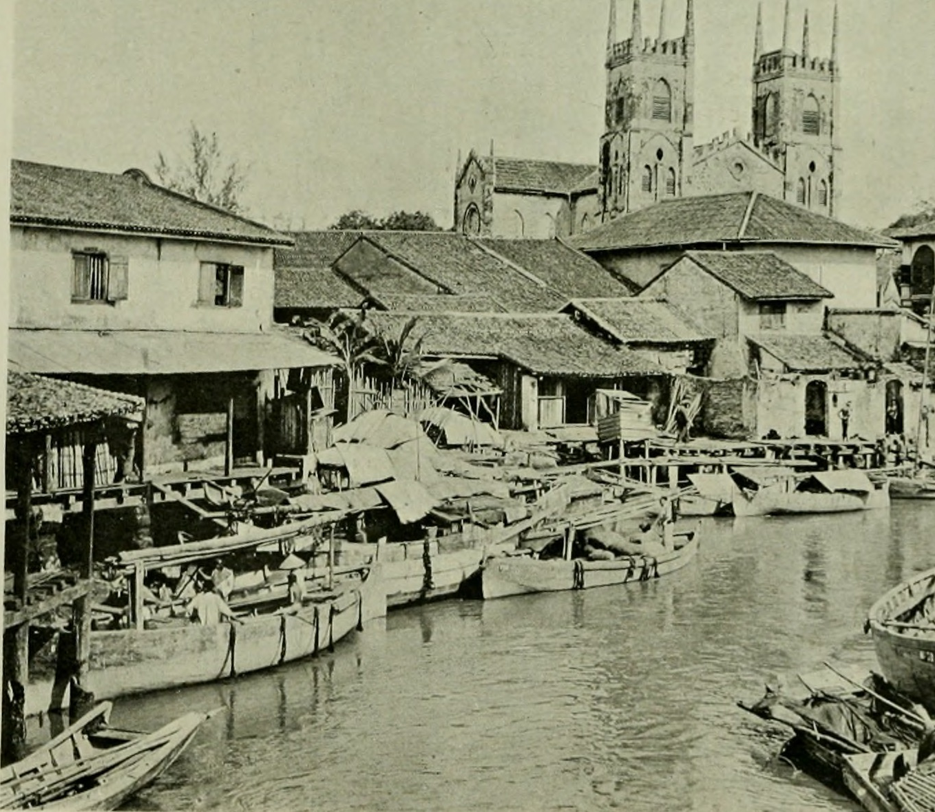 Identifier: britishmalayaac00swet Title: British Malaya: an account of the origin and progress of British influence in Malaya; with a specially compiled map, numerous illustrations reproduced from photographs and a frontispiece in photogravure Year: 1907 (1900s) Authors: Swettenham, Frank Athelstane, Sir, 1850-1946 Subjects: Publisher: London, Lane Text Appearing Before Image: Text Appearing After Image: THE STRAITS OF MALACCA 7 on the other spaces of water, green or blue, grey or blood-red, molten silver or black, under the varying conditionsof sunlight and shadow, of eastern day or eastern night.There are no Malay villages, no country scenes, morepicturesque than those of Malacca; and if the visitorchances to meet a wedding party in bullock carts, or aMalay funeral procession ; if he witnesses a fleet of fishingboats putting out at sunset, or homing at dawn ; and haseyes to see and to appreciate the colours, the move-ment, the strange people with their strangely beautifulsurroundings, the scene will live in his memory for alltime. Singapore is 120 miles south-east of Malacca, a few milesnorth of the southernmost point in Asia ; the island standssentinel at the narrow gate which divides the Straits ofMalacca from the China Sea. A dozen ocean-goingsteamers pass into or out of its harbours every day, andmost of these vessels call at no other port in the Straits.By good fortune, it comm